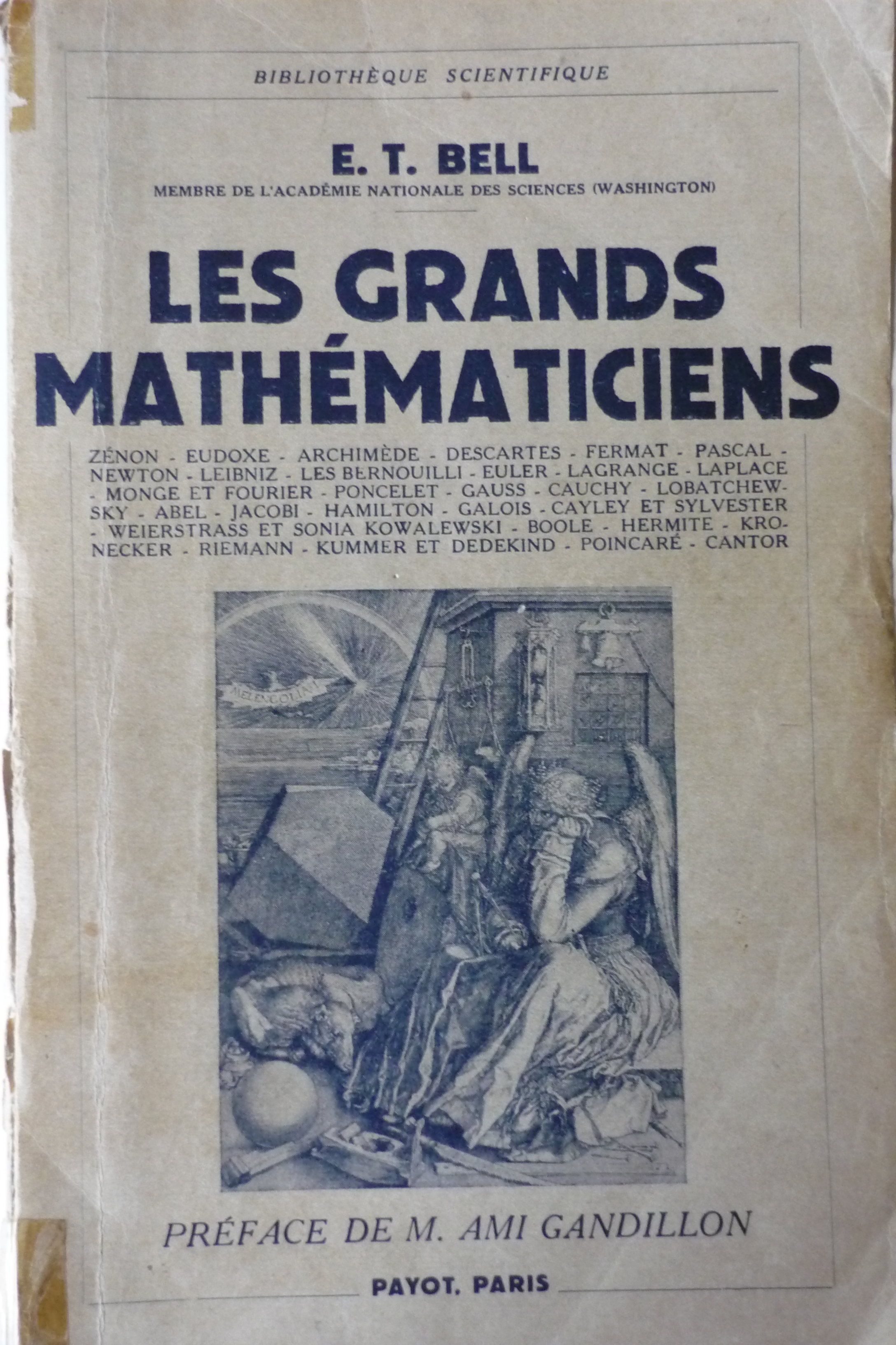 Title page from the French translation of Eric Temple Bell's Men of Mathematics (1937).